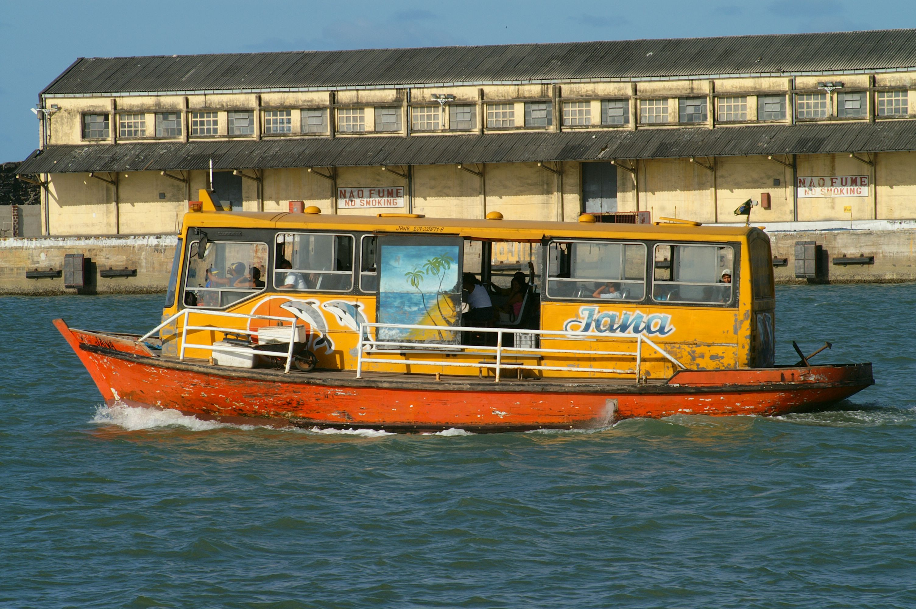 An old bus-chassis used on a passengerferry at the Cabedelo-Costinha connection. Paraíba, Brazil.